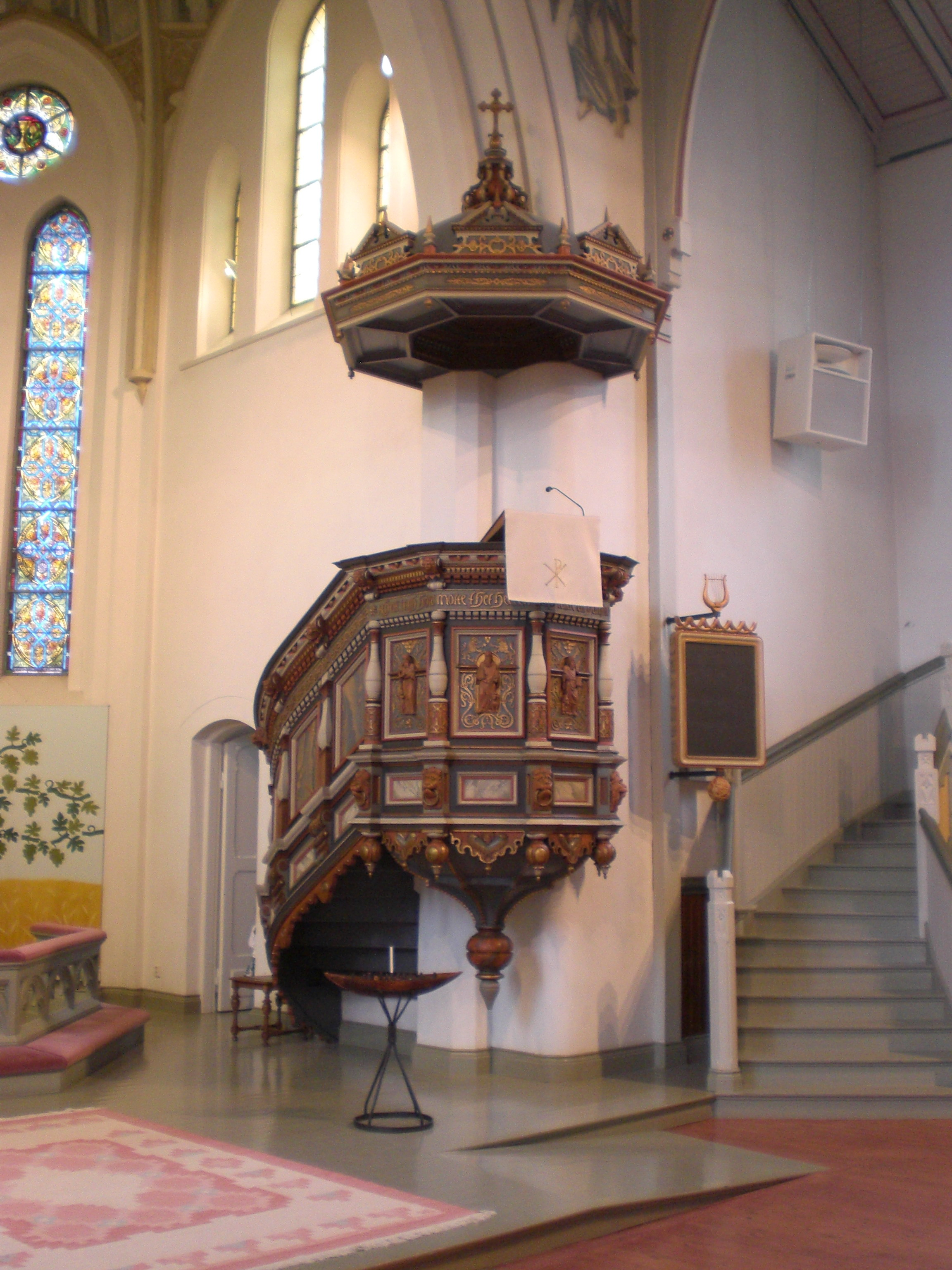 Vindeln church Pulpit, Vindeln, Sweden